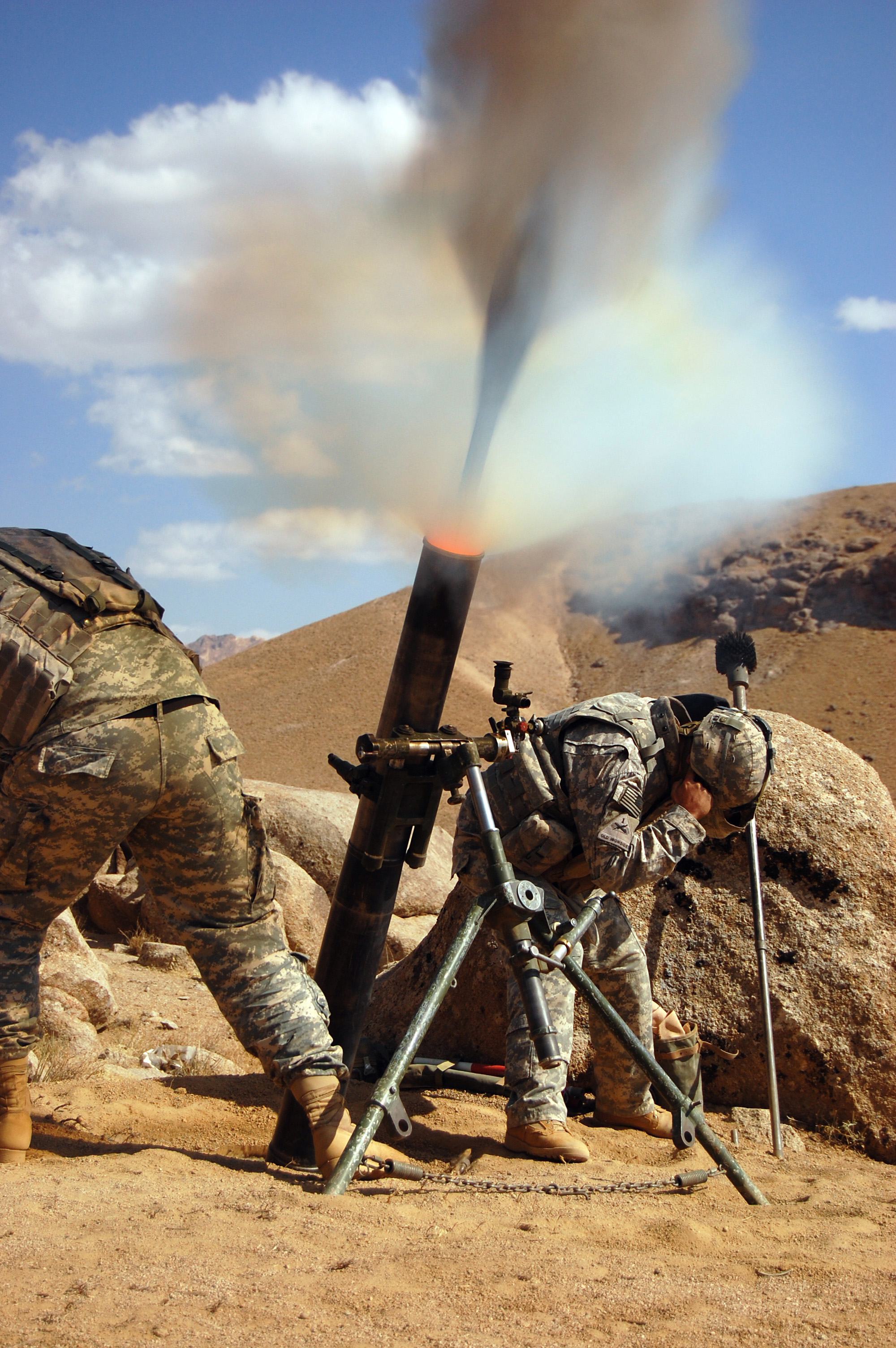 From left, U.S. Army Pfc. Jerry Cleveland and Spc. Brett Mitchell, both from Alpha Company, 1st Battalion, 4th Infantry International Security Assistance Force (ISAF), fire a M120 mortar during a combat operation in the Da\'udzay Valley in the Zabol province of Afghanistan Oct. 23, 2007. The operation is a joint Afghan National Army and ISAF mission to clear anti-government elements from the Dawzi area in Zabol province, Afghanistan.